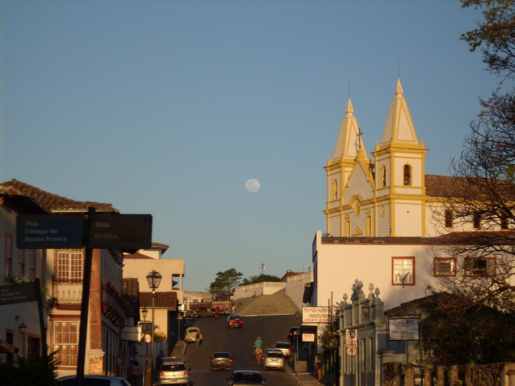 View of Matriz de Santa Luzia in Direita Street in Santa Luzia (MG)